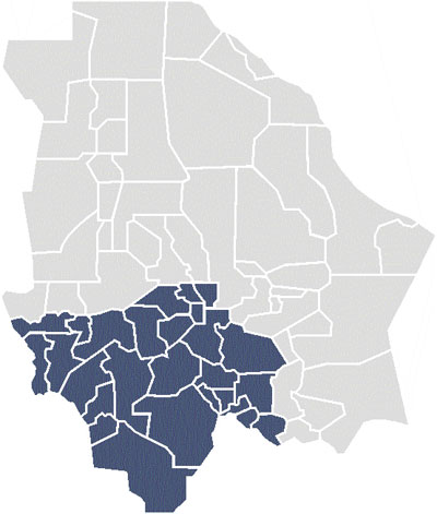 Map of the Ninth Federal Electoral District of the State of Chihuahua, México.